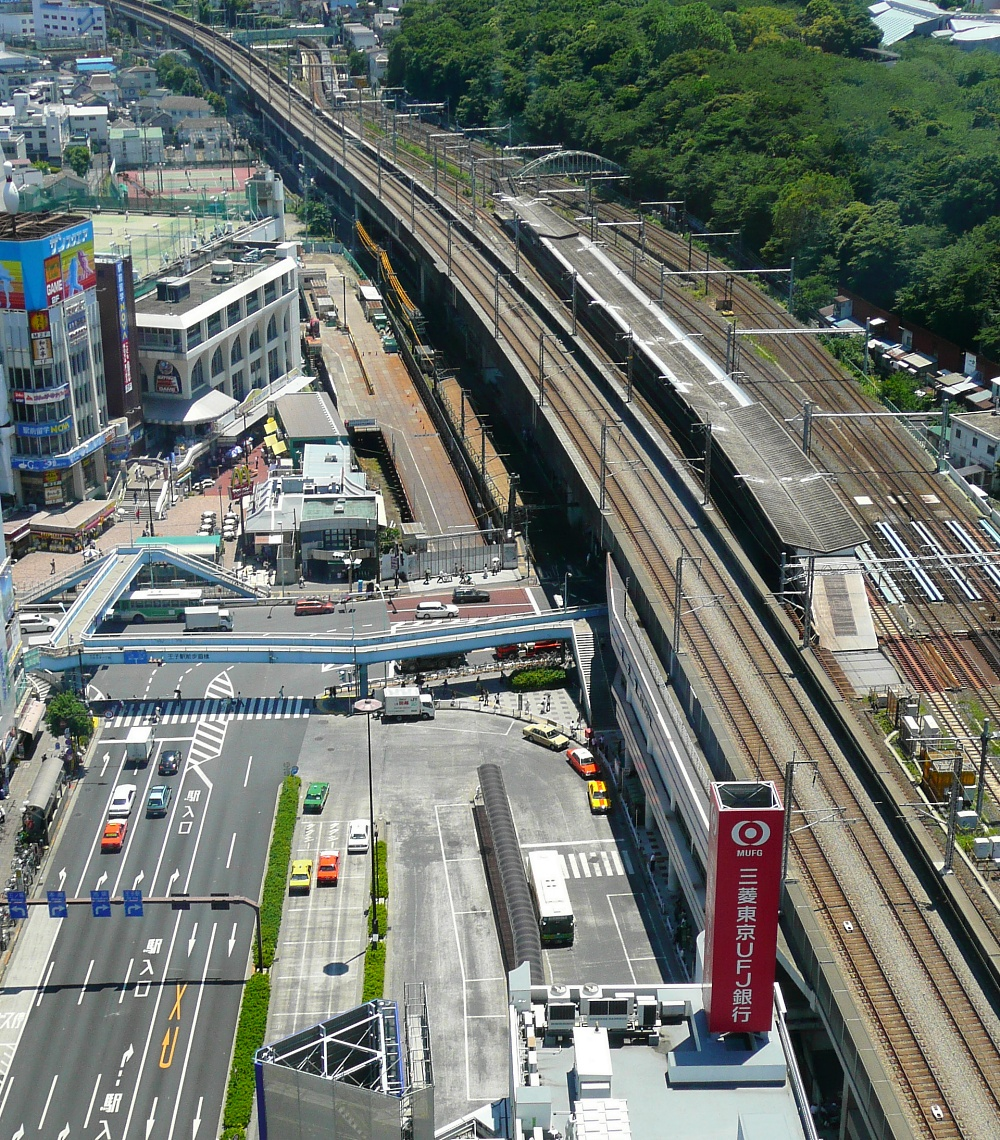 High angle view of Ouji Station.